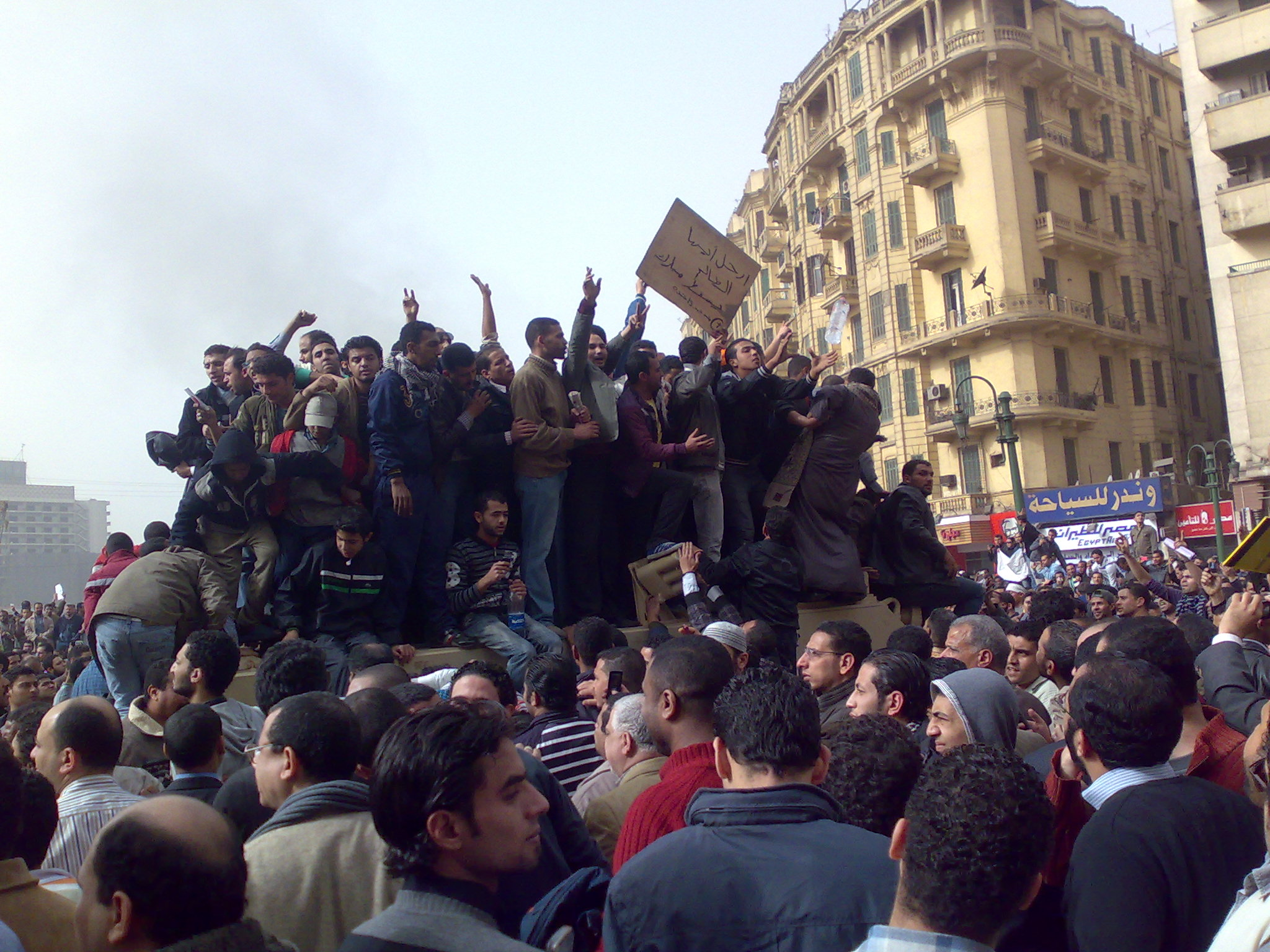 Demonstrators on Army Truck in Tahrir Square, Cairo Date: 29 January 2011 Photographed by: Ramy Raoof